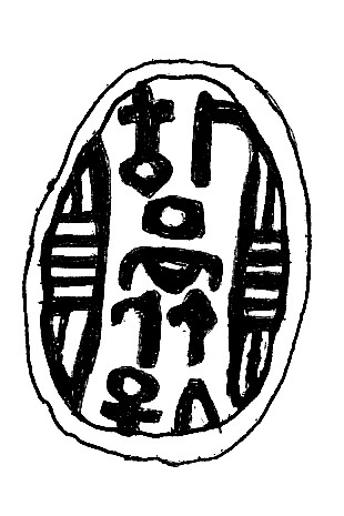 Drawing of a scarab seal of pharaoh Nubwoserre. - "The good god, Nubwoserre, given life" The original seal is exibited at the Petrie Museum (UC16597). Reign of Nubwoserre, 14th or 16th Dynasty, Second intermediate period.